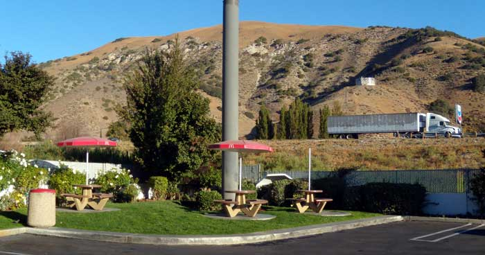 Gorman, California, from McDonald's restaurant on the west side of the I-5 Freeway. The photo shows a truck-semitrailer on the freeway, and a water tank and Standard gas station sign on the east side against the Tehachapi Mountains.